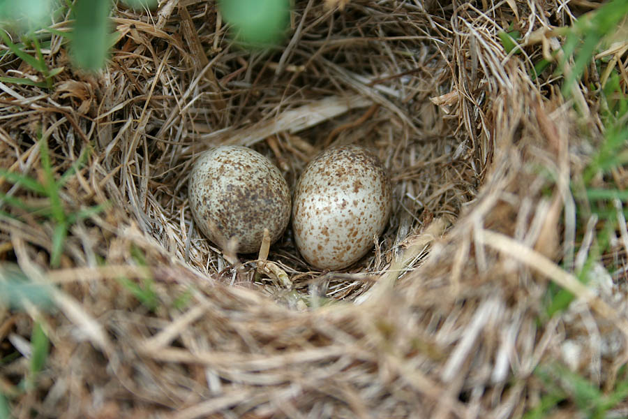 Ashy-crowned Sparrow Lark or Ashy-crowned Finch-lark Eremopterix grisea nest - Hindi: Diyora, Duri, Deoli, Dabak chiri, Jothauli, Pun: Saleti sir-chandol, Mirshikars: Gotowli, Ben: Math charai, Dhula chata, Guj: Bhon chakli, Rakhodishir bhonya chakli, Ta: Manam vanambadi, Te: Poti pichika, Piyada pichika, Ambali jorigadu, Mal: Karimpandi, Sinh: Gomaritta- in Hyderabad, India.